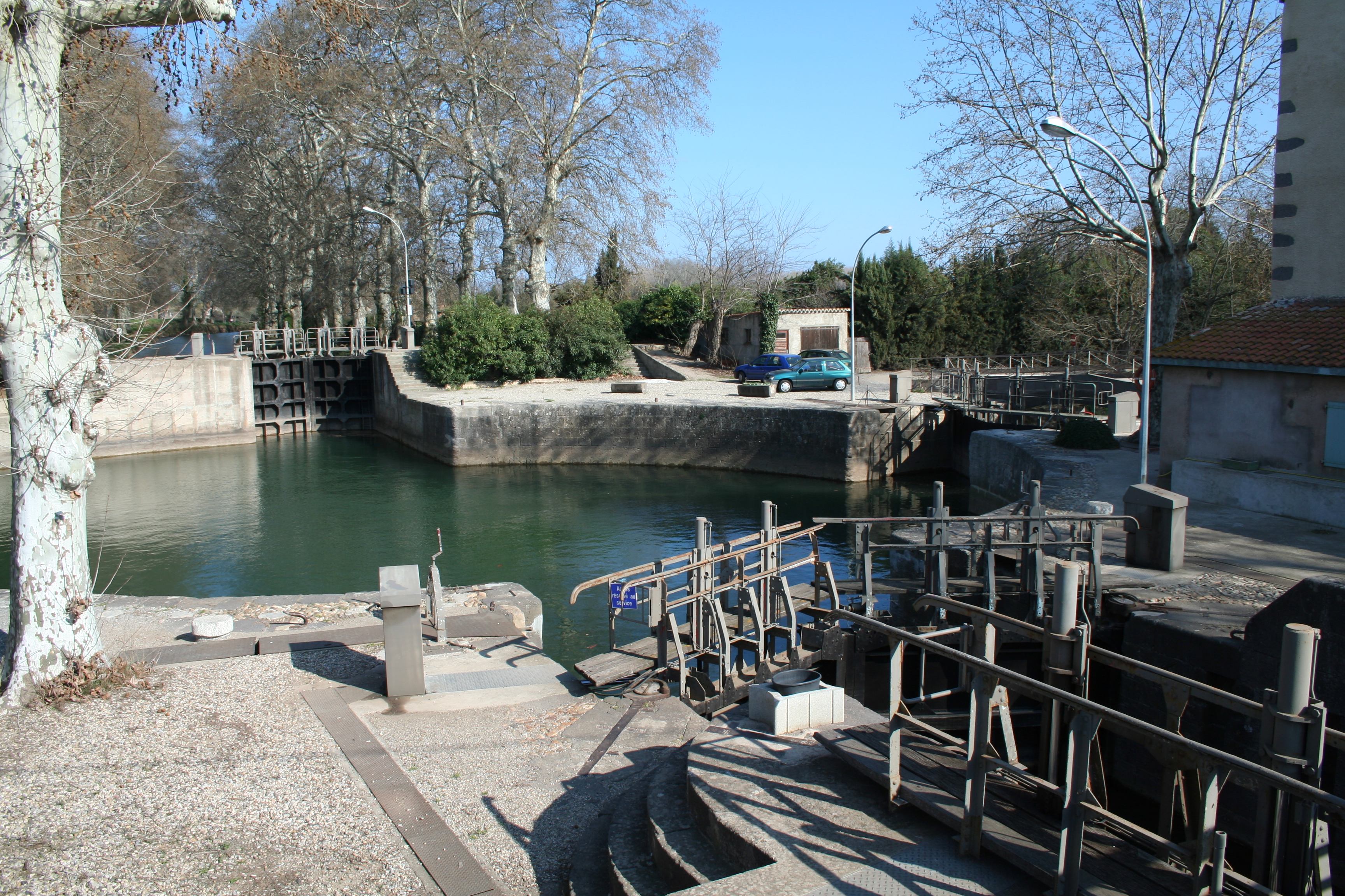 Agde (Hérault) - Round basin and its three Canal du Midi gates.